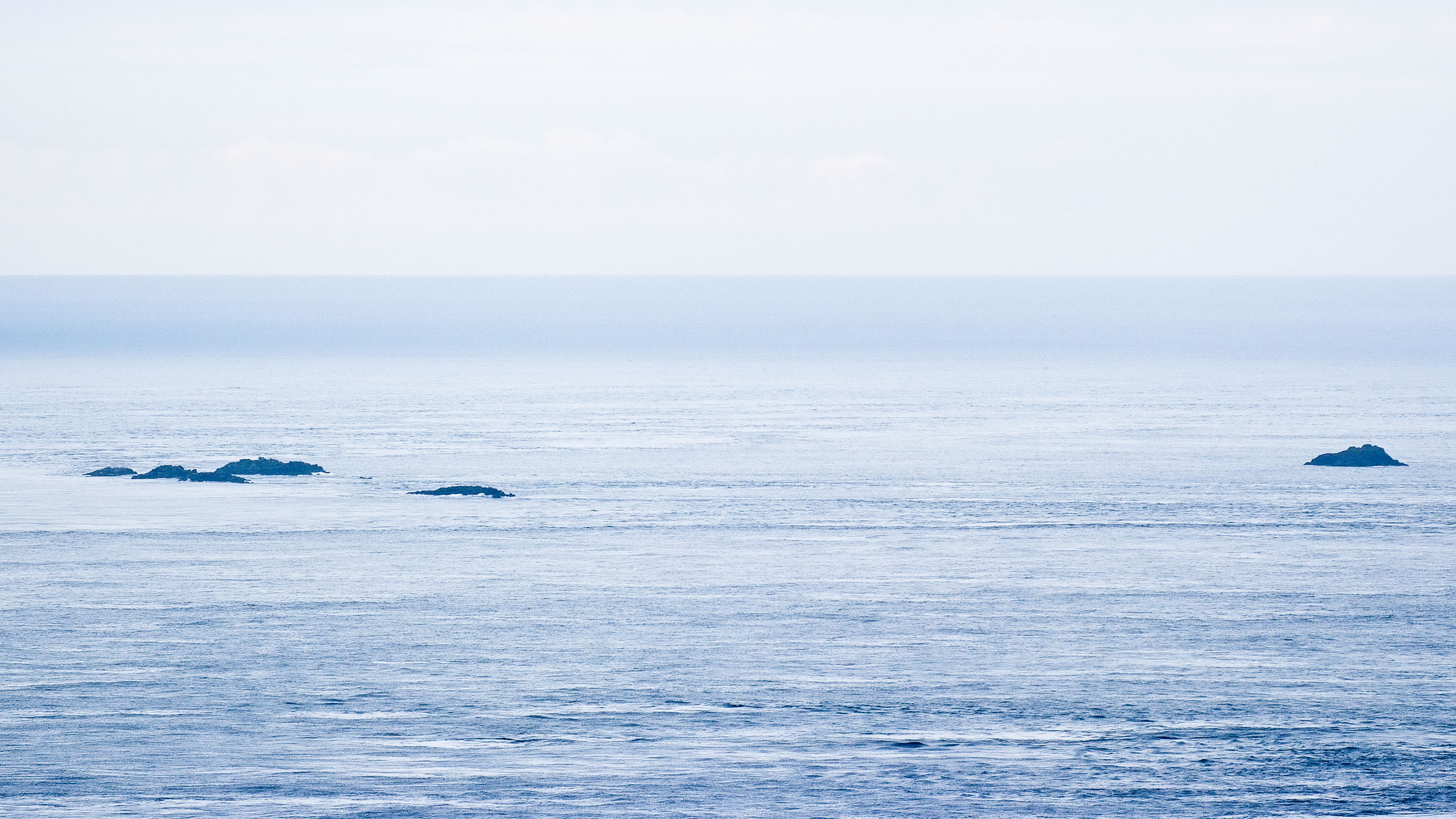 The skerries Flesjarnar and Sumbiarsteinur are the southernmost points of the Faroe Islands. As seen from Akraberg (5 km distance)